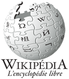 French Wikipedia logo